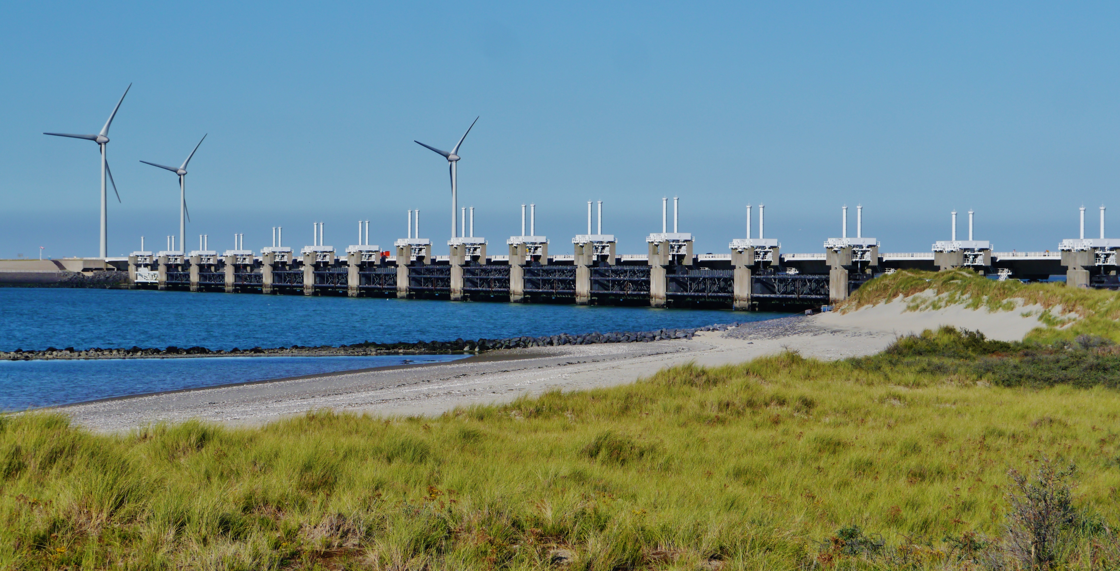 Eastern Scheldt Storm Surge Barrier, Province of Zeeland, Netherlands